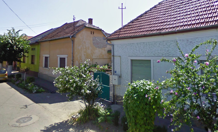 arad